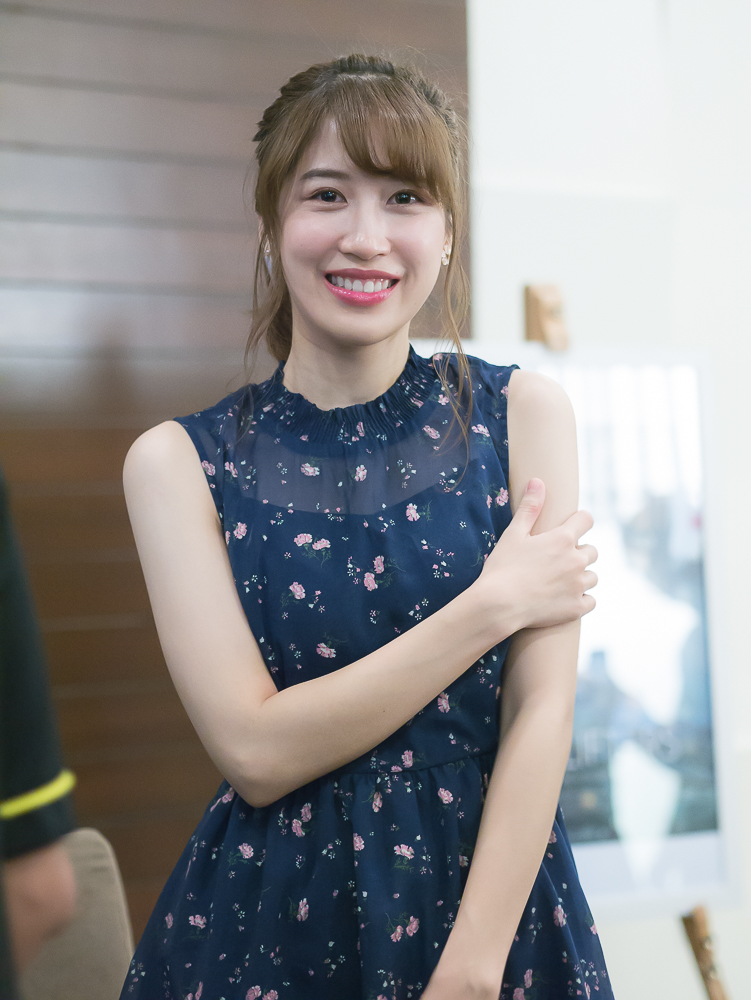 Jan or Jan Chan (Jetsupa Kruetang), the Former BNK48's 1st generation Team BIII member, a Thai solo artist who mostly focus on Thai-Japan projects. This photo was taken at House RCA cinema (Jan Chan's Shoplifters Movie Fanmeeting.)